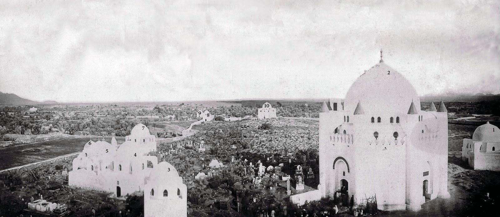 1. House of sorrow 2. Mausoleum of four Shia Imams 3. Daughters of the Prophet 4. Wives of the Prophet 5. Aqil and Abullah ibn Jafar 6. Malik and Nafie 7. Ibrahim, the little son of the Prophet 8. Halimah al-Sadiah 9. Fatimah Bint Asad 10. Uthman, the third Caliph.